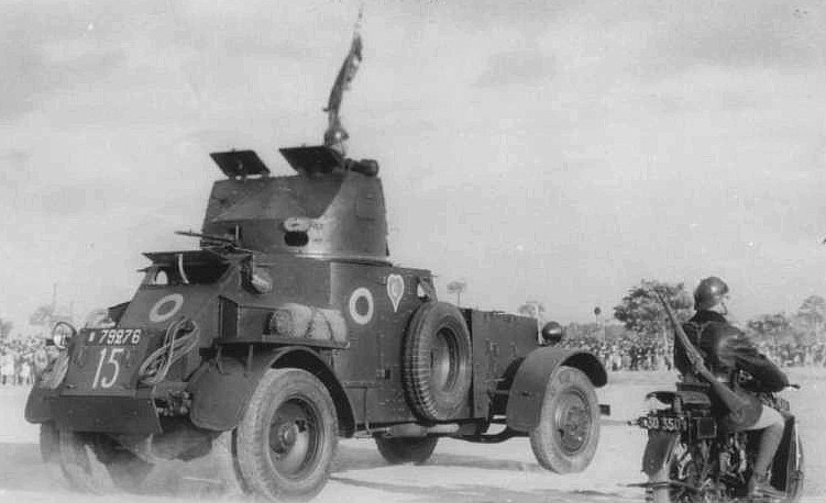 Rear view of a White-Laffly AMD 50 from the 4e régiment de chasseurs d'Afrique (probably in Tunisia c. 1938)